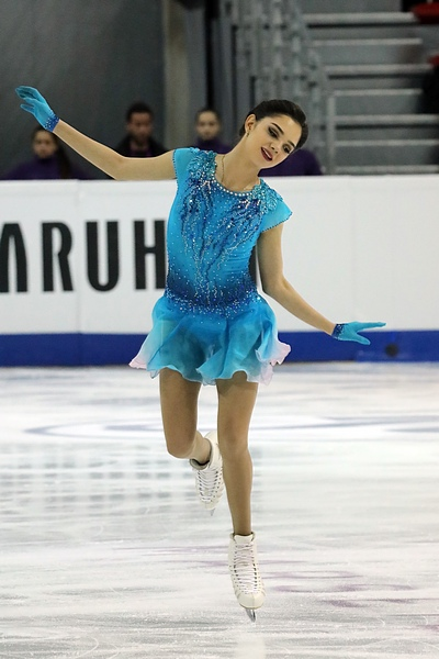 Evgenia Medvedeva at the 2016–17 Grand Prix of Figure Skating Final.